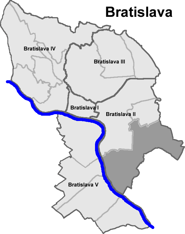 map of the city parts of Bratislava, Slovakia, city part of Podunajské Biskupice highlighted selfprovided on June 30th, 2005